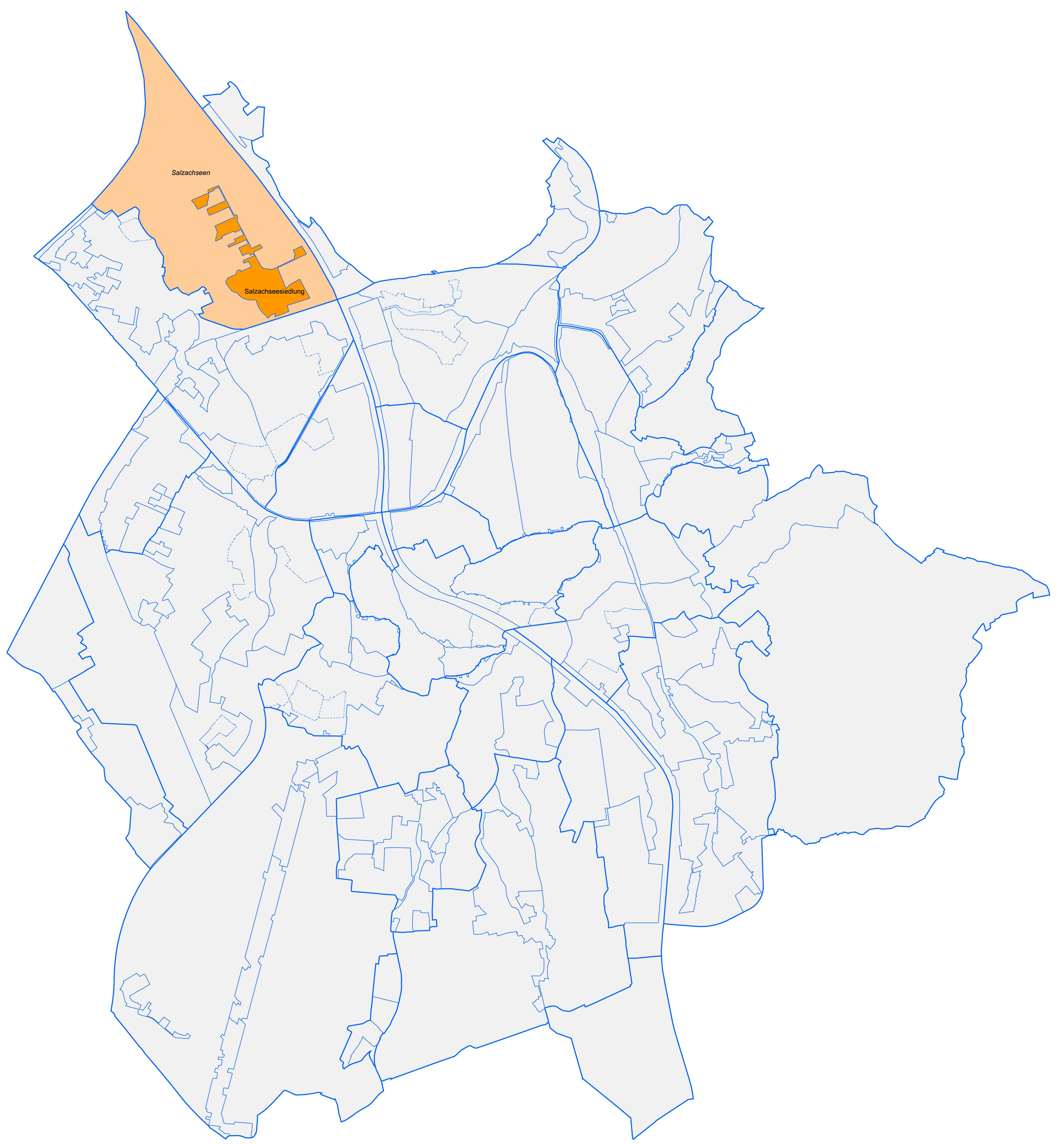 a quater of Salzburg The Salzachseesiedlung in Liefering